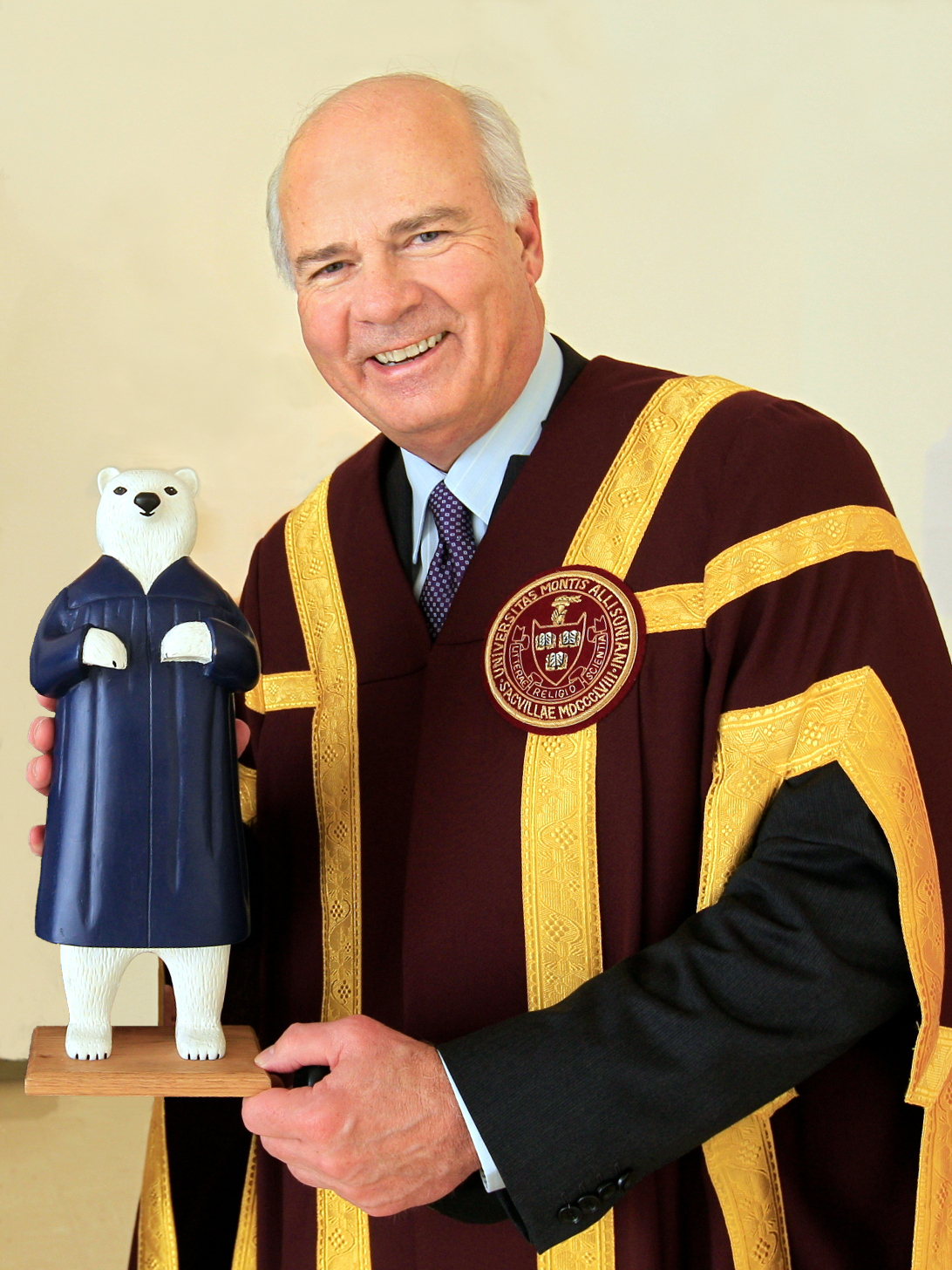 Peter Mansbridge, Canadian news anchor, at Mount Allison University Convocation Ursula AUCC.